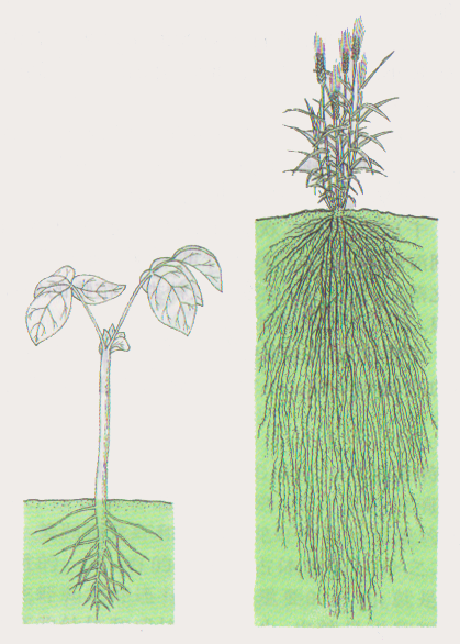 Tap Root & Fibrous Root